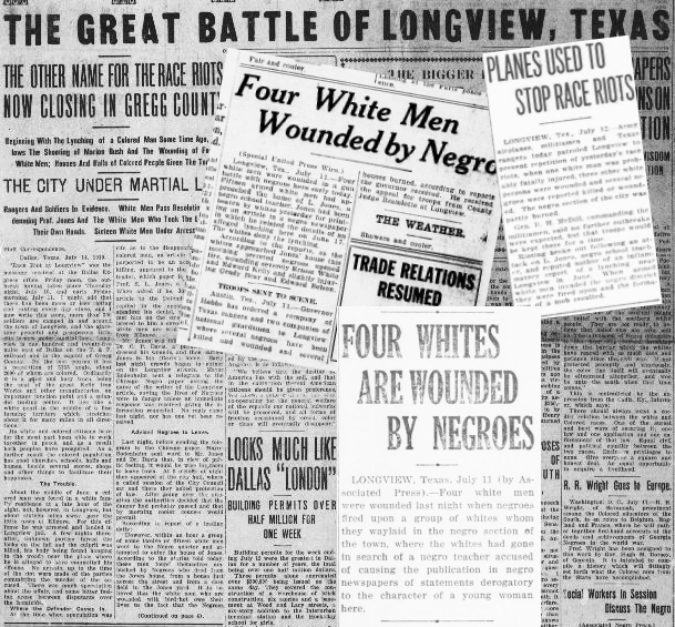 News coverage of the Longview race riot